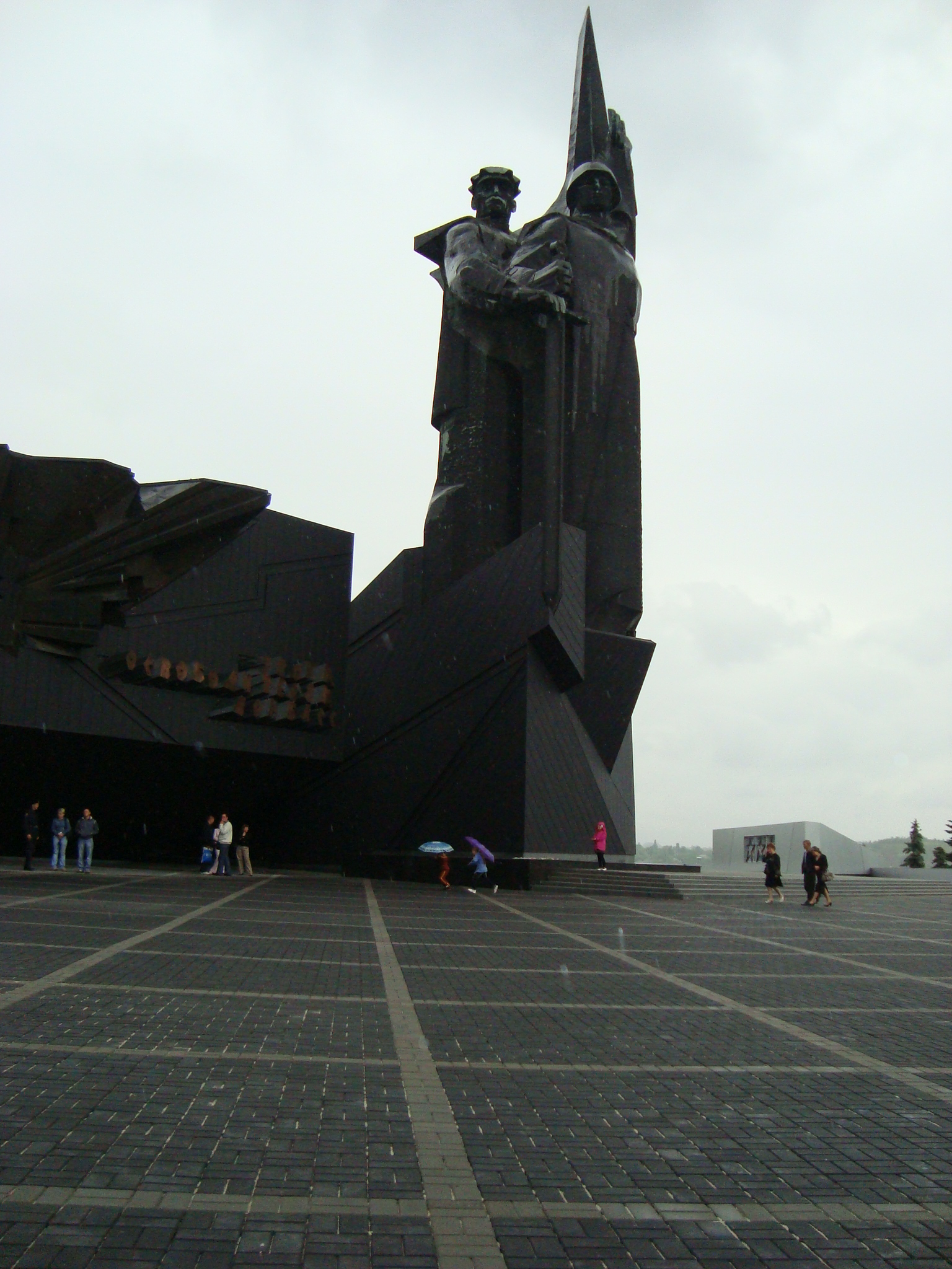 A Monument in the Lenkom park